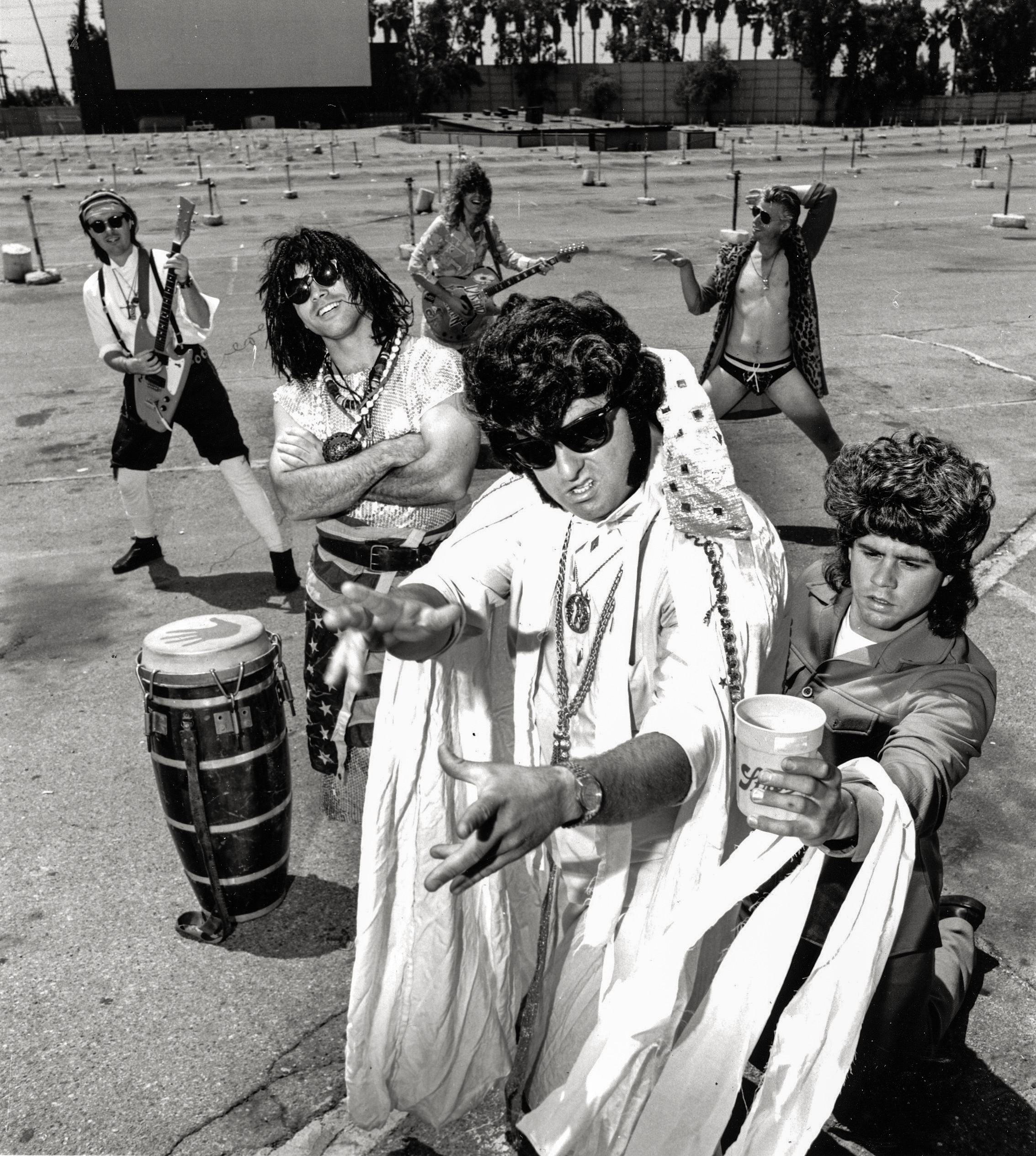 First publicity shot for Dread Zeppelin. Photo taken at the Edwards Drive-In, Arcadia, CA 1989.